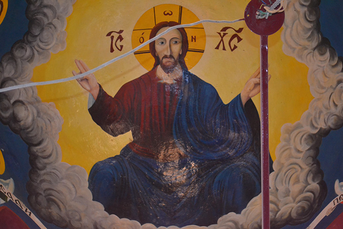 Srpska Kuca Church Fresco